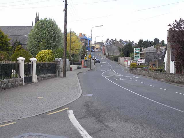 South end of Main Street, Killashandra Where the R199 from Cavan and Bellananagh enters the town.